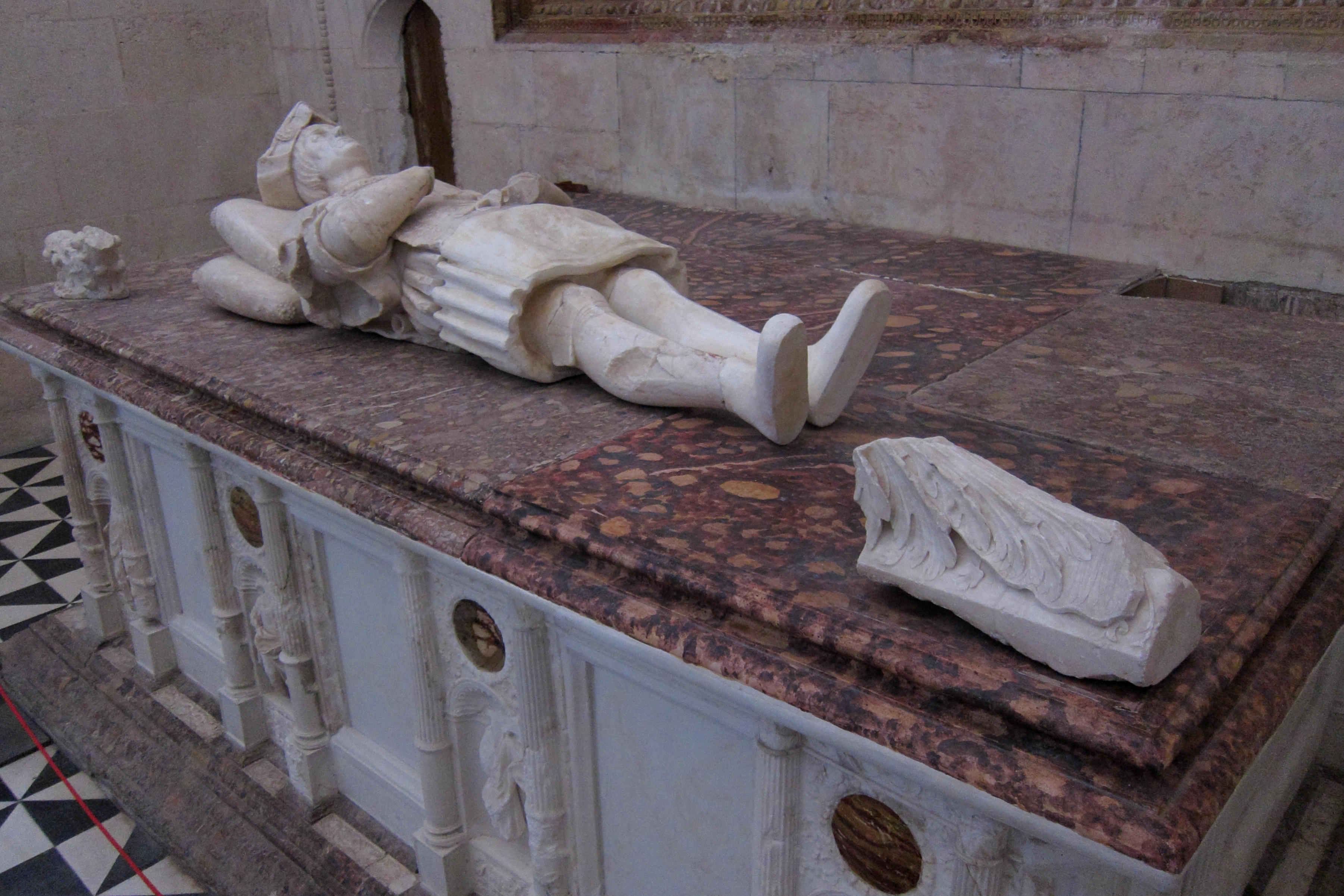 Church and convent of San Pablo, Peñafiel Valladolid, Spain. Cenotaph of Don Juan Manuel, nobleman of Belmonte (16th century).